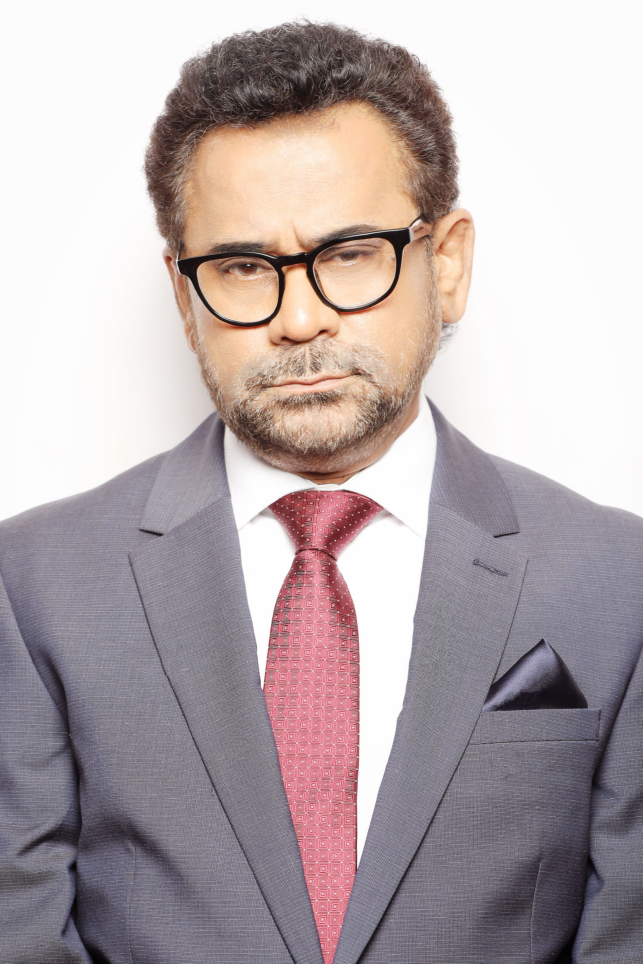 Anees Bazmee